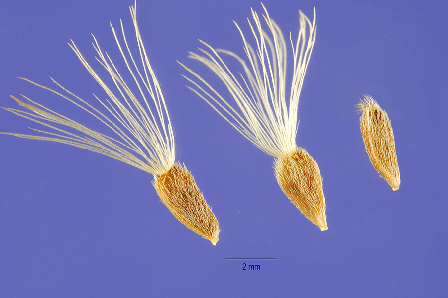 Aster alpinus, seeds